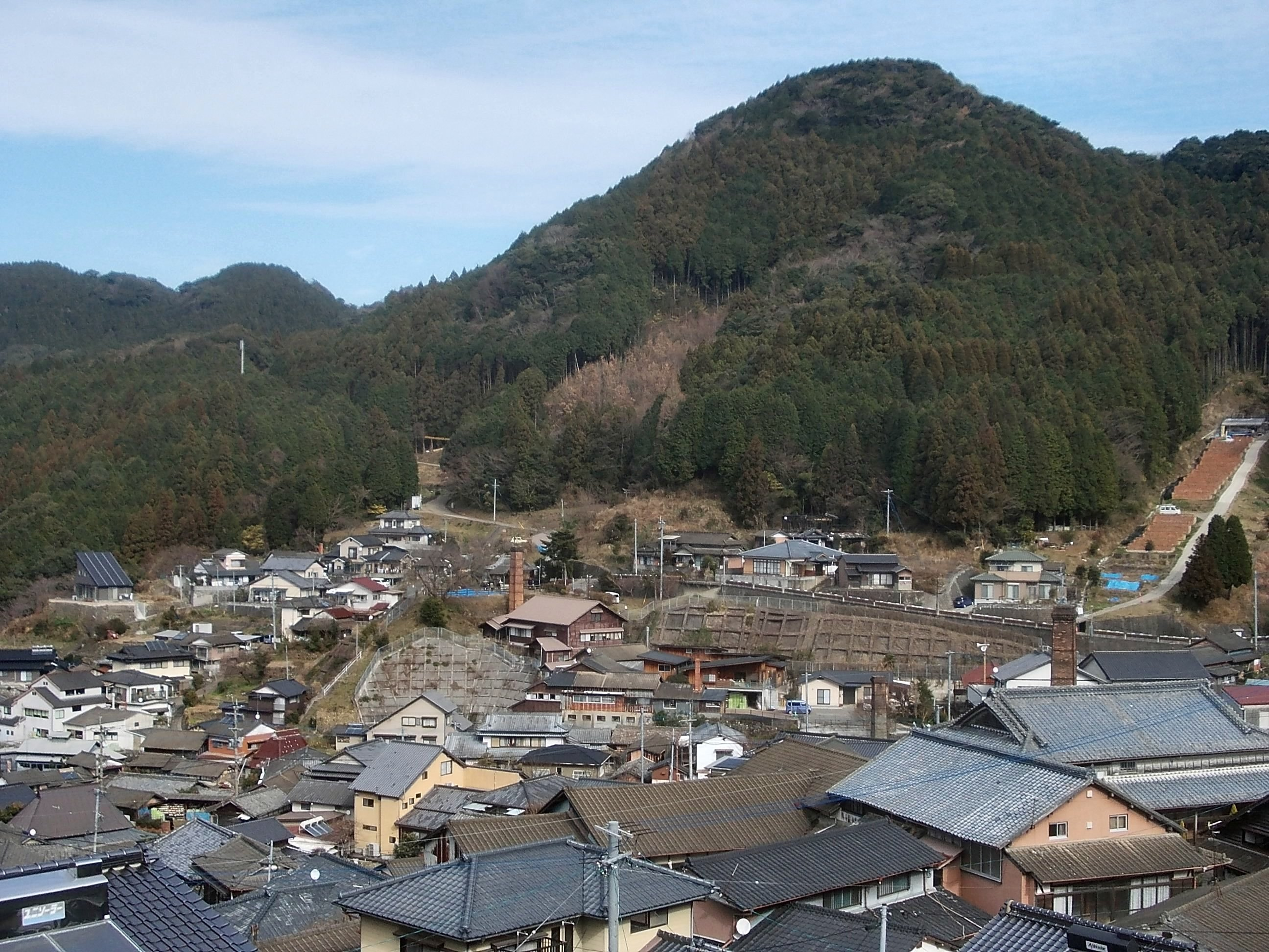 The Nakaogo area of Hasami Town. Most of the kilns are located in this area.